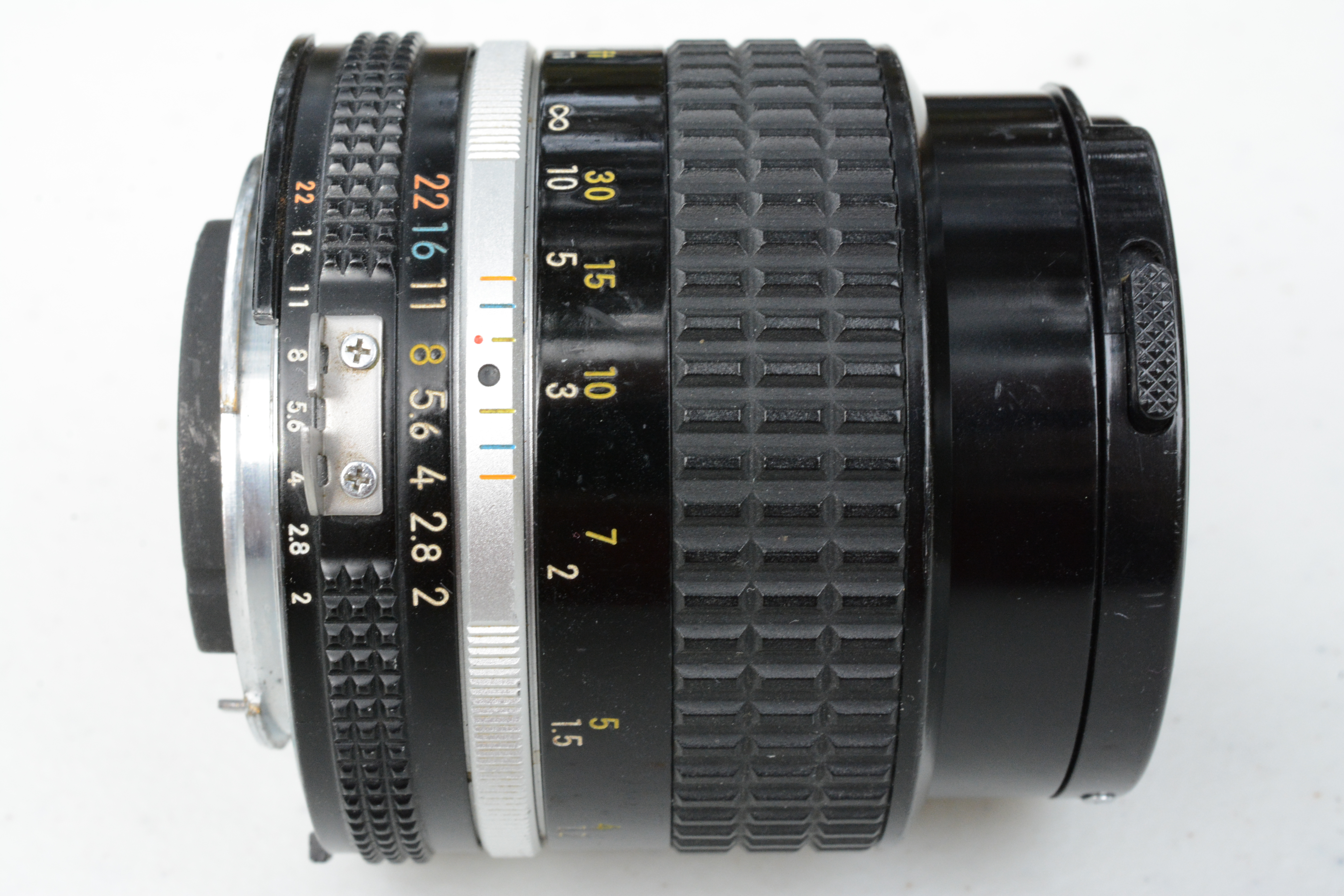 Nikon 85mm f/2 manual focus lens